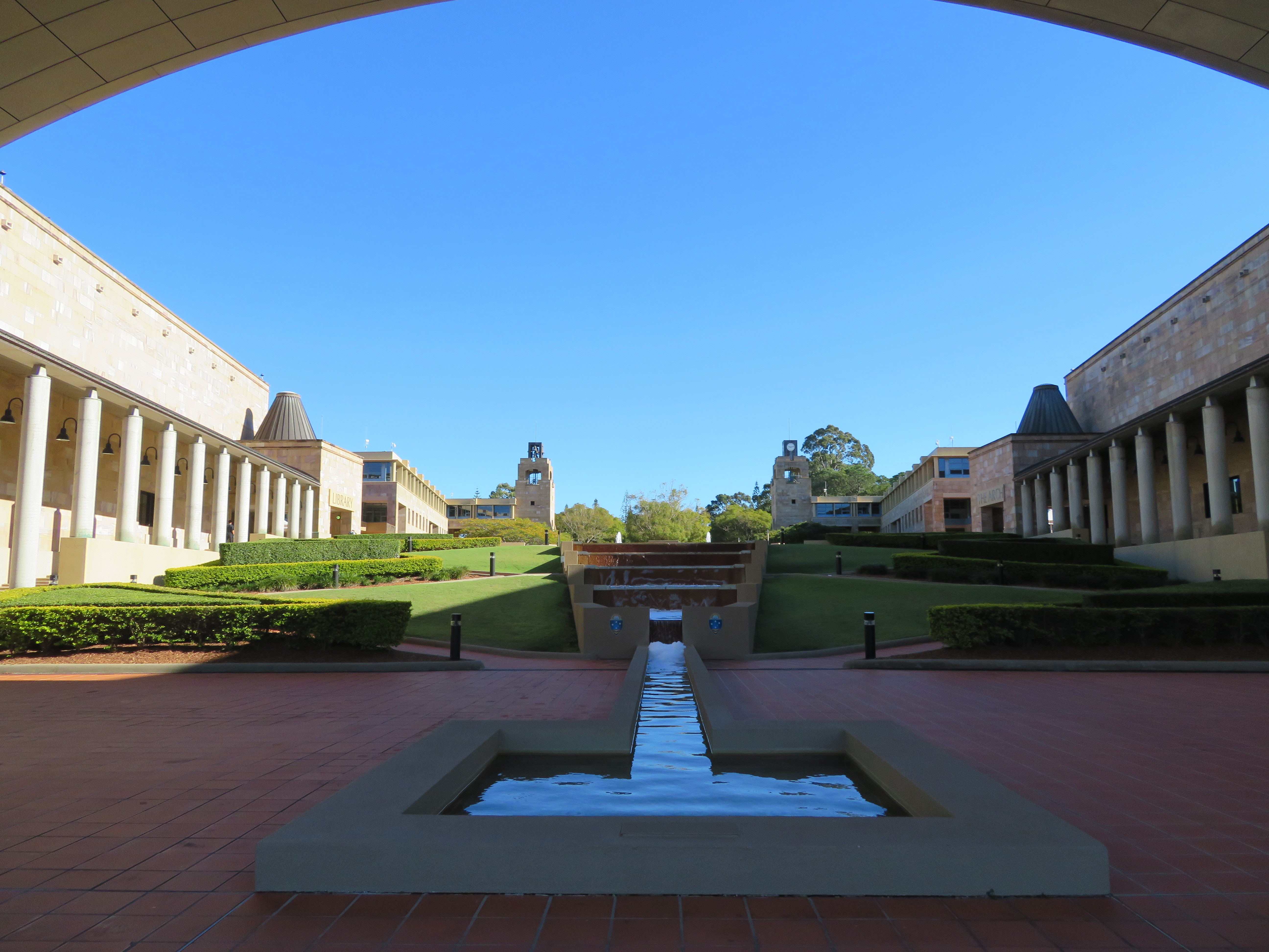 View under the Arch Building at Bond University looking towards the main courtyard surrounded by sandstone faculty buildings